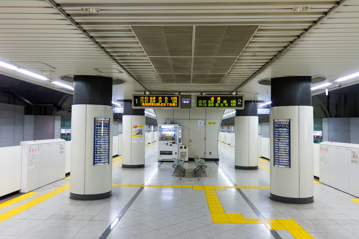 The platforms at Zoshigaya Station on the Tokyo Metro Fukutoshin Line in Tokyo, Japan